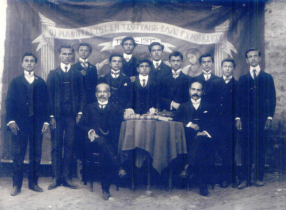 Pupils in High School in Tsotili, Greece